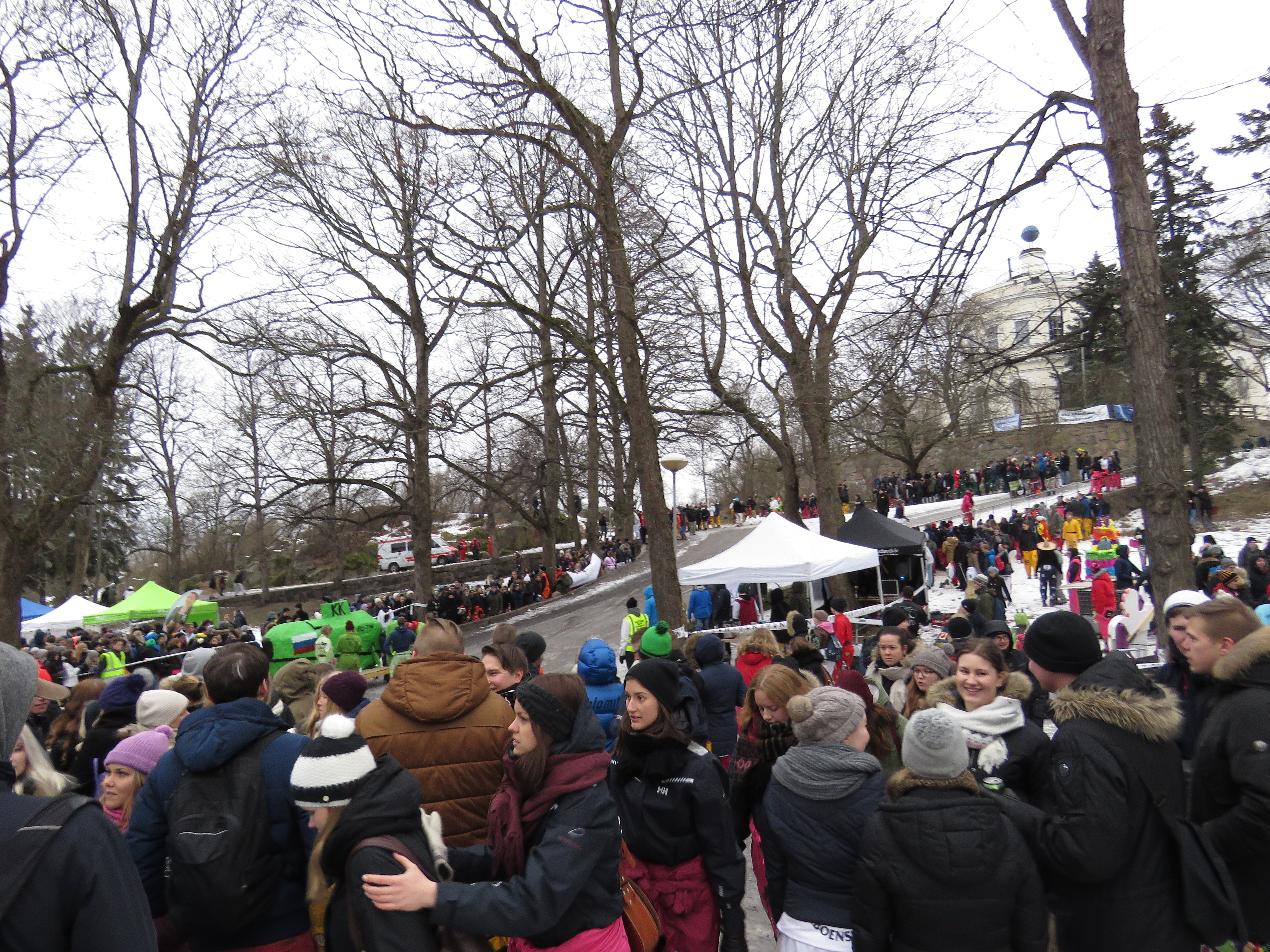 Faslaskiainen 2015 event at Vartiovuori hill in Turku February 17th 2015. The event is part of Shrove tuesday traditions among local universities and polytechnics students.